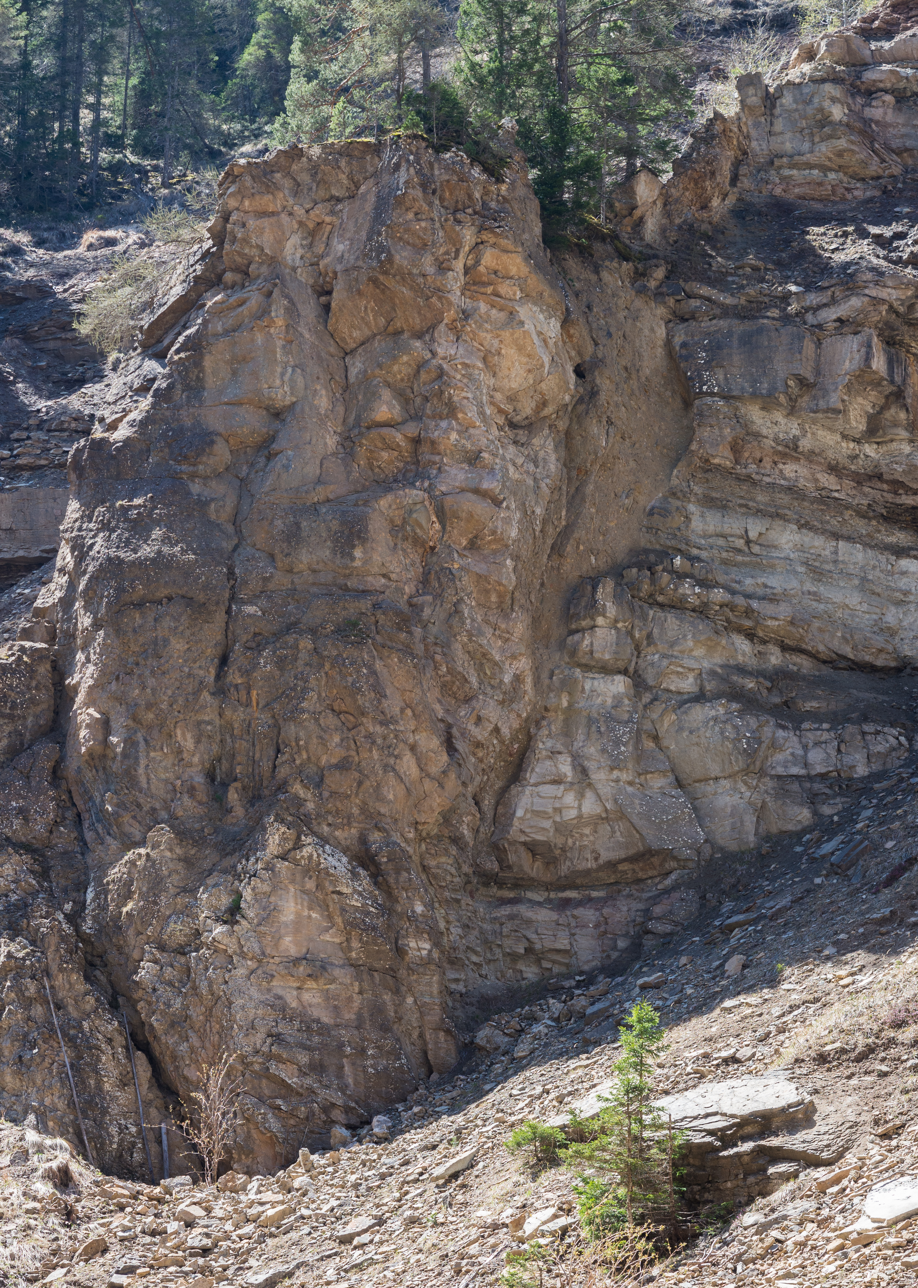 Vulcanic breccia pipe in the Gröden Sandstone in the Butterloch section of the Bletterbach in South Tyrol